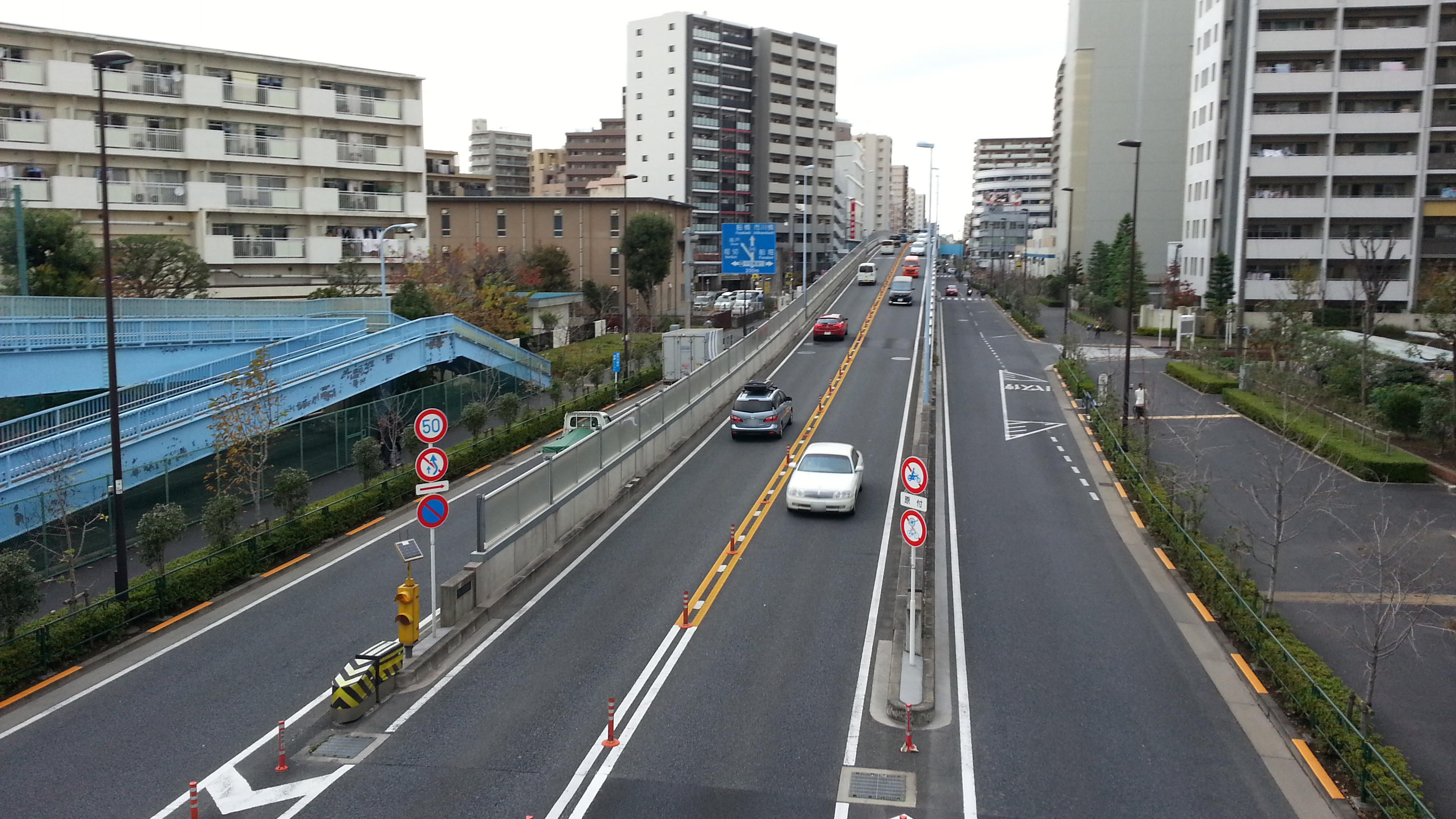 The west side of The Shin-Koiwa overpass